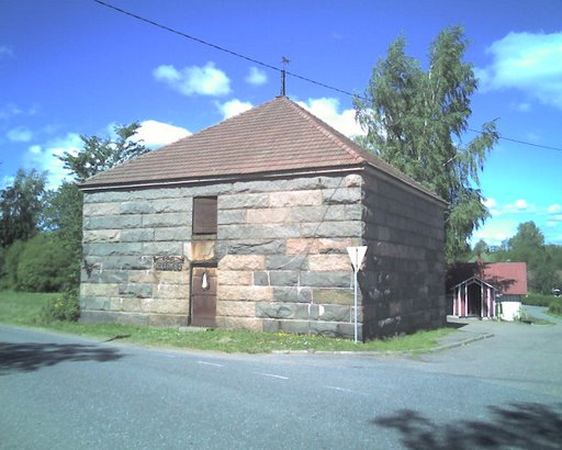 Oripää Museum in Oripää, Finland. -Old parish granary, completed on 1915. It's been local museum since 1986.